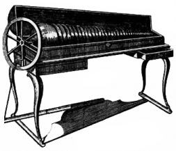 Image of the glassharmonica, invented by Benjamin Franklin.